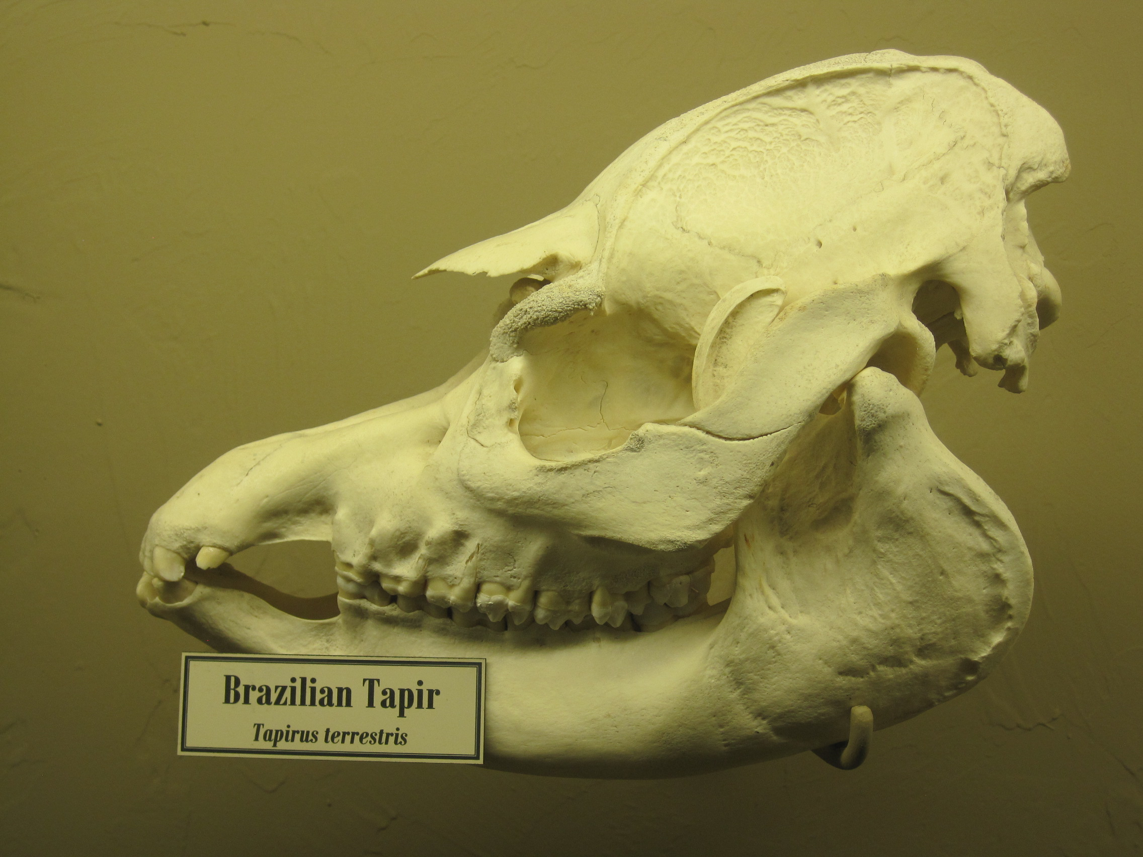 Brazilian Tapir skull on display at the Museum of Osteology, Oklahoma City, Oklahoma.